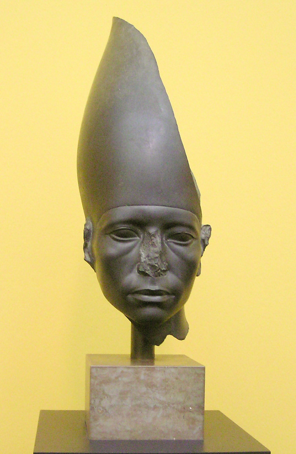 Head of a statue of Amenemhat III wearing the White crown. Greywacke. Twelth Dynasty, reign of Amenemhat III. Ny Carlsberg Glyptotek (AEIN 924). «A masterpiece of ancient Egyptian sculpture, this head depicts Amenemhat III so arrestingly that the viewer is left with the indelible impression that it represents the king's actual appearance. Nothing is known, however, of this rules's true physiognomy. The sculptor has so masterfully suggested skin and soft flesh in the velvety texture of the stone that any sense of hardness dissolves. It contrasts with the firm, polished surface of the white crown, a symbol of Upper Egypt.» "Ancient Egypt Transformed: The Middle Kingdom" [exhibition], The Metropolitan Museum of Art, 2015-2016.